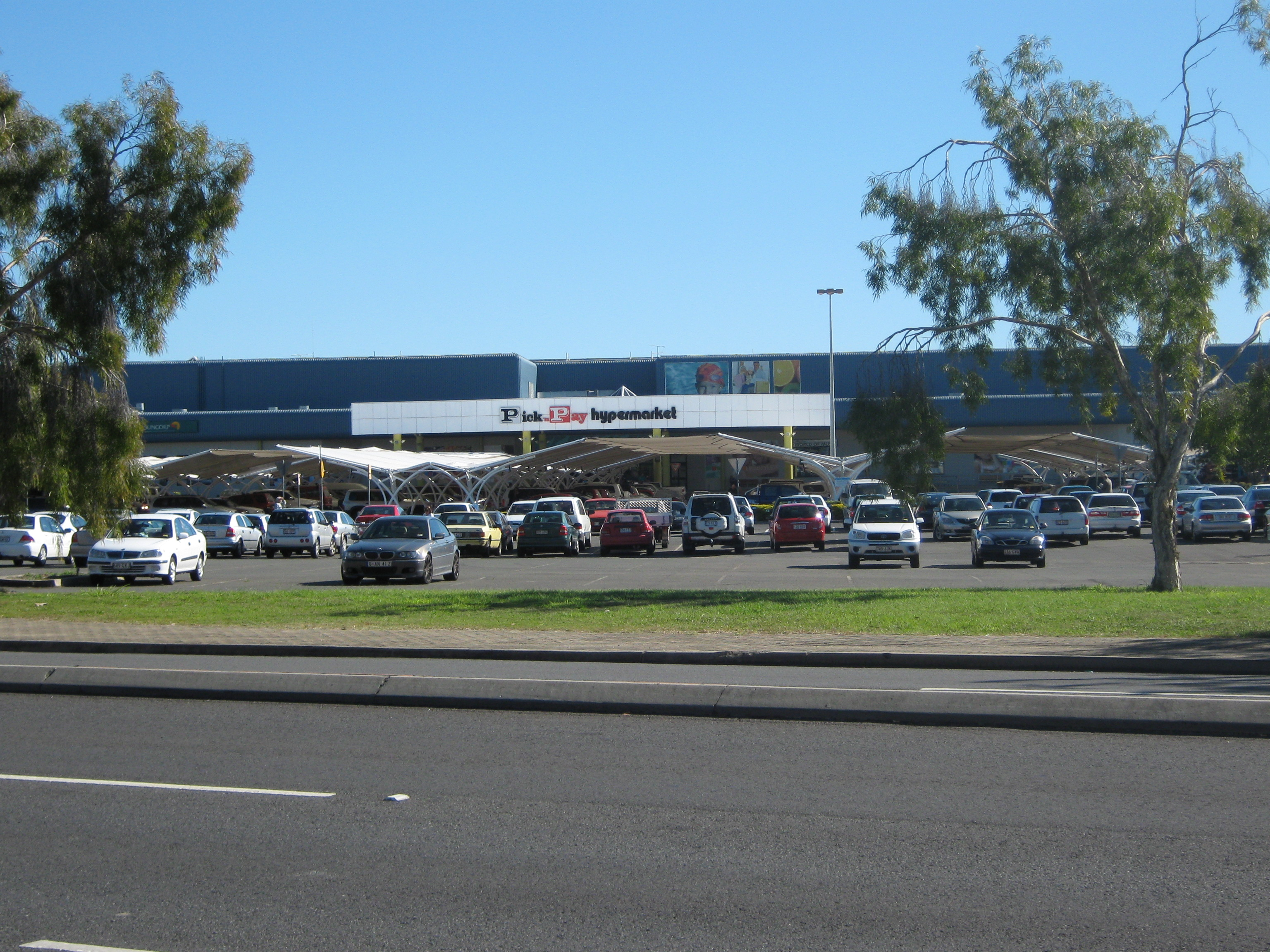 Pick 'n Pay Hypermarket, Aspley, Queensland.